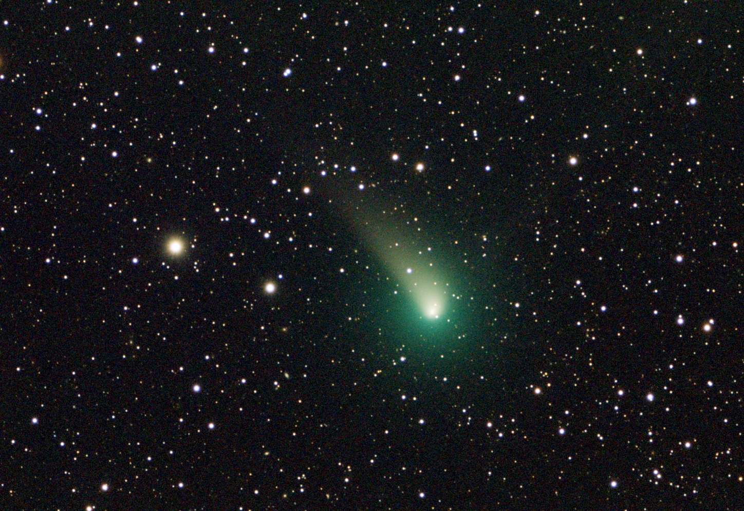 Comet C/2015 V2 (Johnson).39x 240 seconds iso1600. Esprit 100 f5.5/ canon 6da